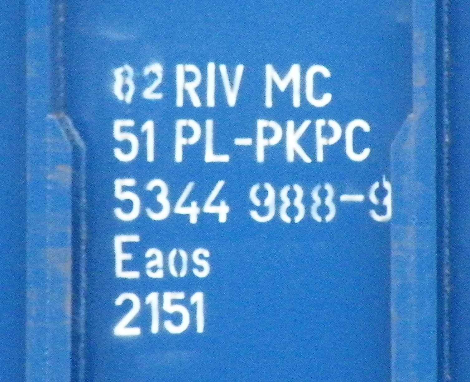 UIC number at open wagon class Eaos